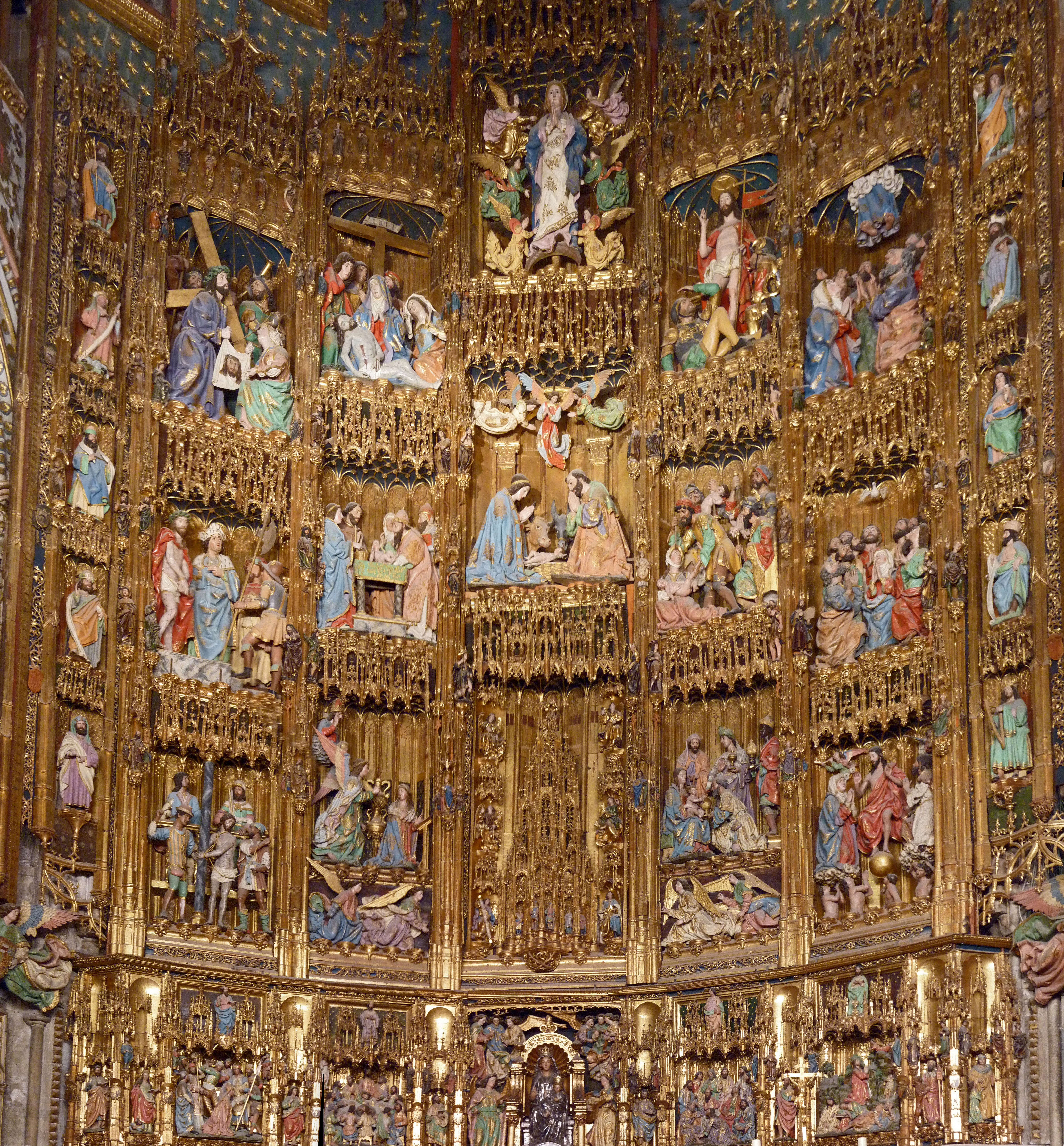 The retable of the Cathedral of Toledo, Spain